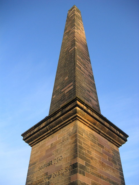 Nelson's Monument Situated in the centre of Glasgow Green and pre-dating Nelson's Column in London by three decades, this monument was erected a year after Nelson's death in 1806.